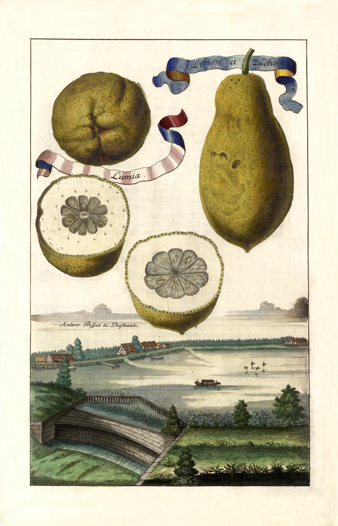 Lumia - Limon à Zucheta p. 138b